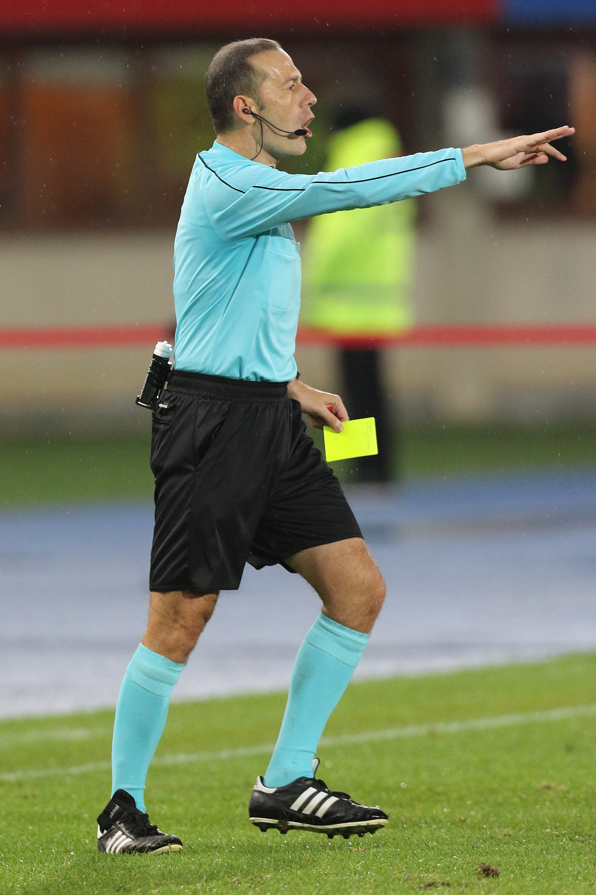 2018 FIFA World Cup qualification – UEFA Group D) – Austria (red shirts) vs. Wales (white shirts) 2-2 (1-2) – 2016-10-06 in Vienna, Ernst-Happel-Stadion – The photo shows referee Cüneyt Çakir (Turkey).